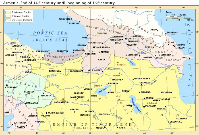 Armenia and the Caucasus; end of the 14th century until the early 16th century